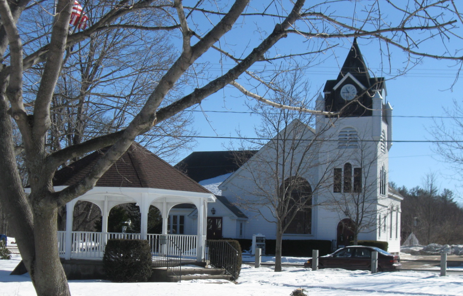 Town Common (Lyman Memorial Park), Raymond, United States, with Raymond Congregational Church in background